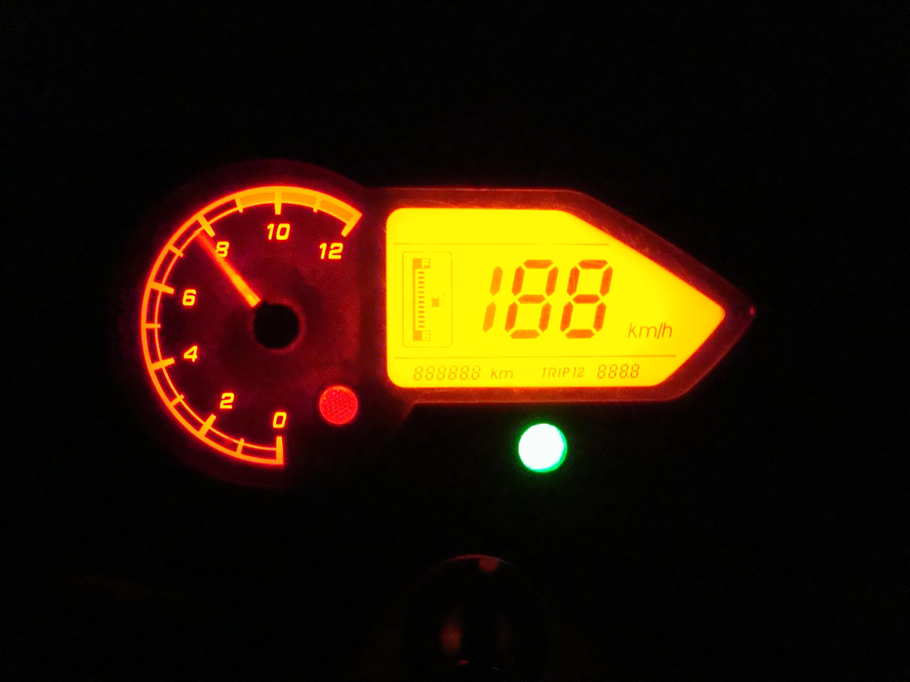 The digital display introduced in the Pulsar UG-III